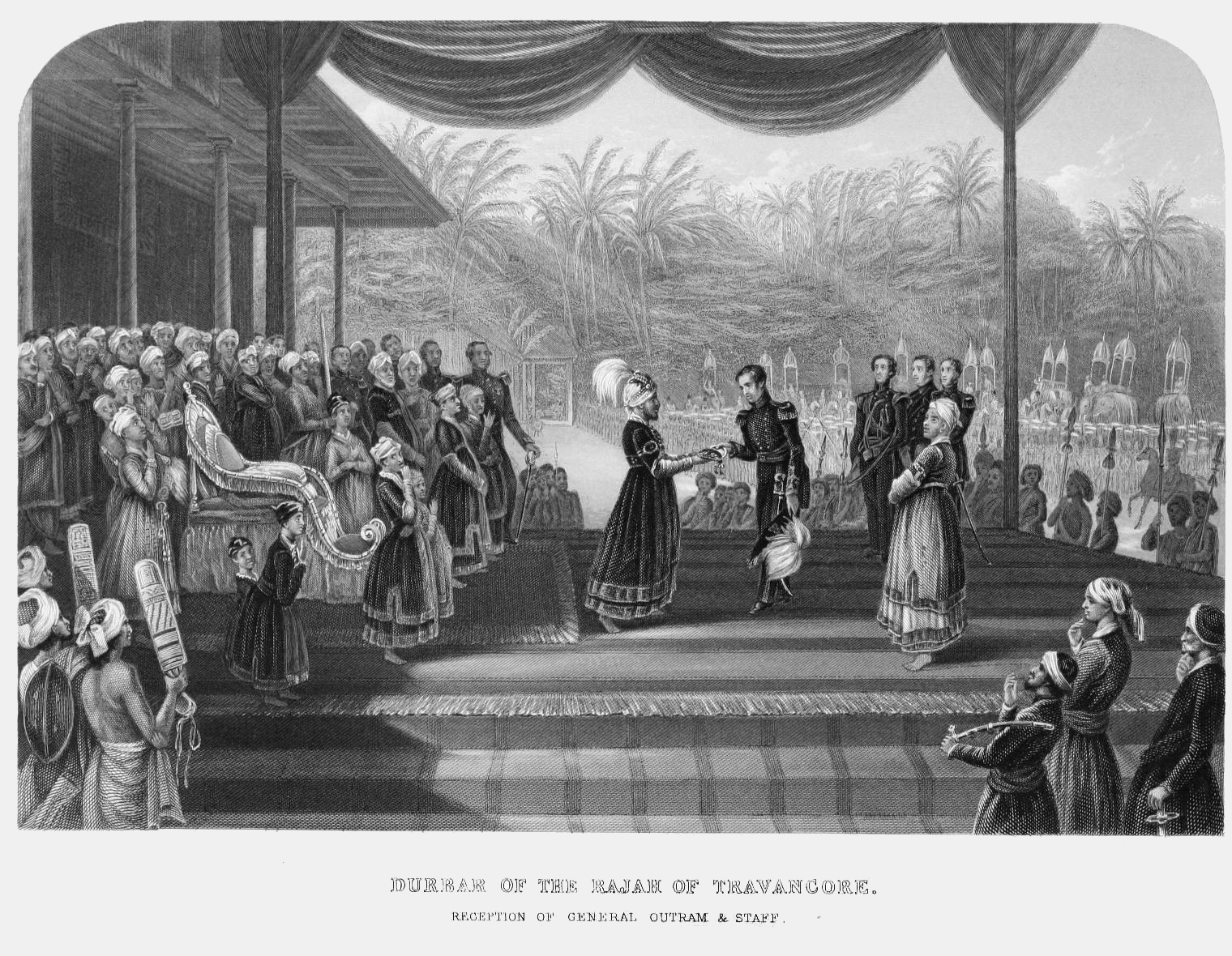 Travancore Rajah receiving Outram and staff (compare also File:CullenTravancore.jpg) [The Rajah is Uthram Thirunal Marthanda Varma (26 September 1814 – 18 August 1860) and the man on the right is William Cullen.